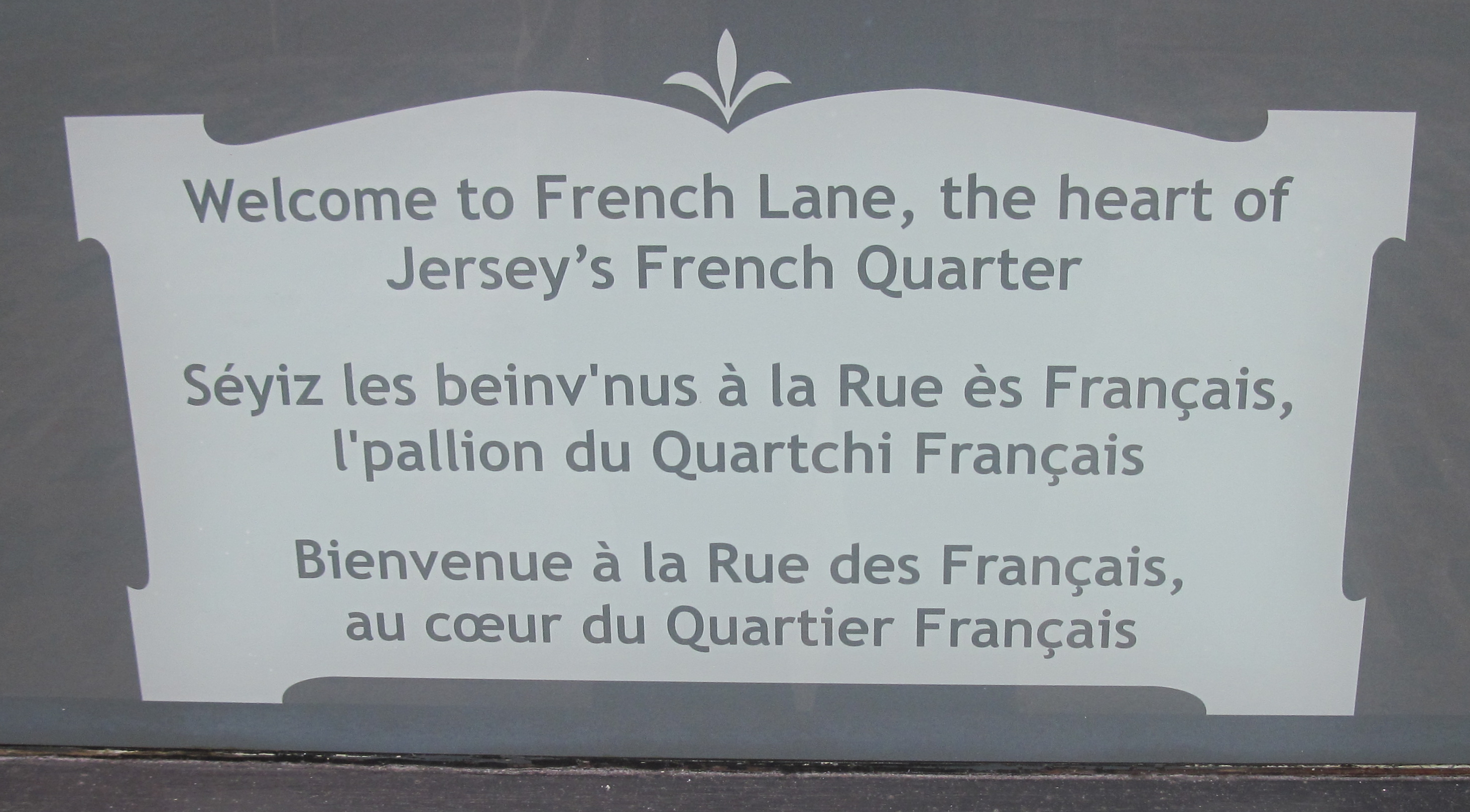 Welcome to French Lane, the heart of Jersey's French Quarter Nouormand: Séyiz les beinv'nus à la Rue ès Français, l'pallion du Quartchi Français